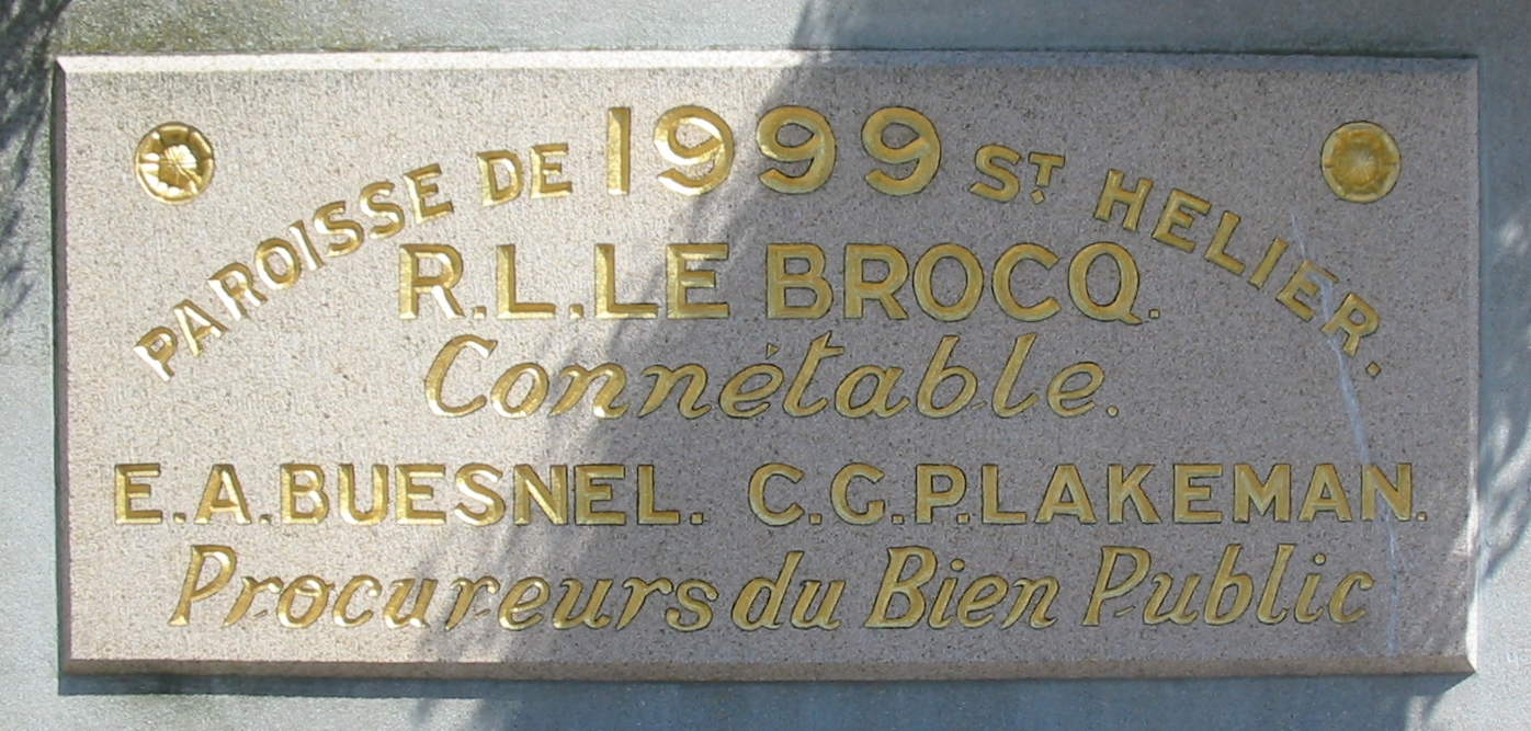 Official stone, 1999, on Old Fire Station, St. Helier, Jersey, with inscription of names of Connétable and Procureurs du Bien Public. Photo taken by Man vyi with Canon PowerShot A40 on August 1, 2005.